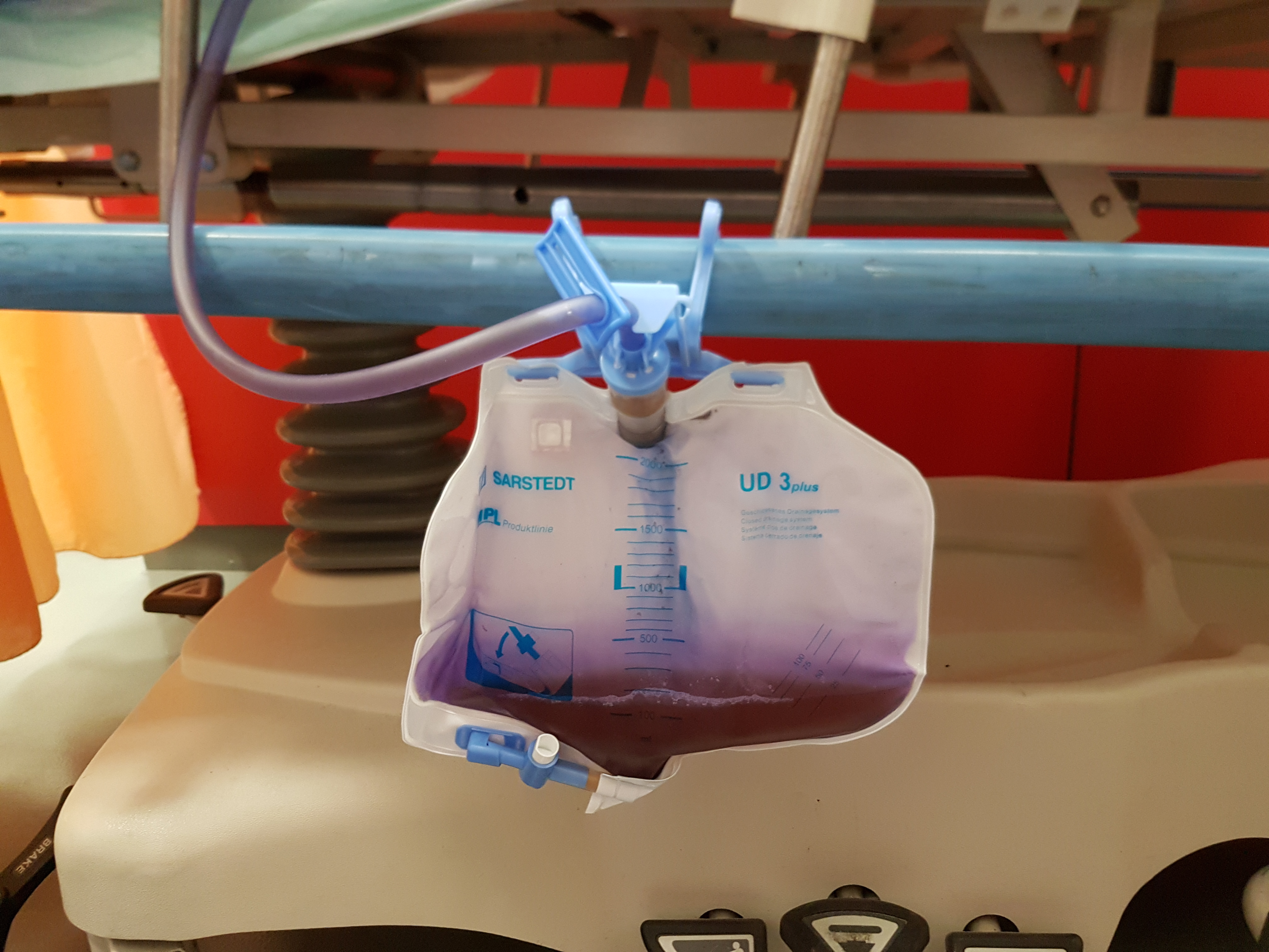 Purple urine bag syndrome in a 90 year old patient with urinary tract infection.